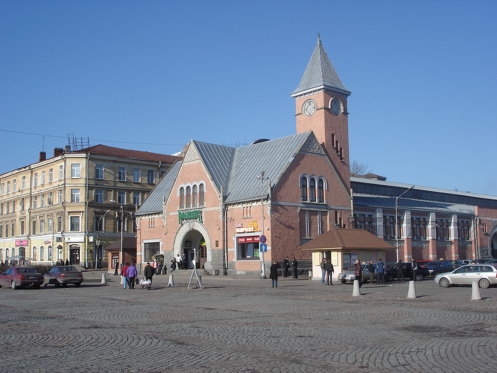 Vyborg central market, Vyborg, Russia, April 2008 by Andrewsyria.